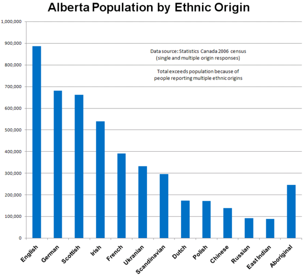 Bar chart of Alberta population by ethnic origin, created using MS Excel from Statistics Canada data, 2006 census